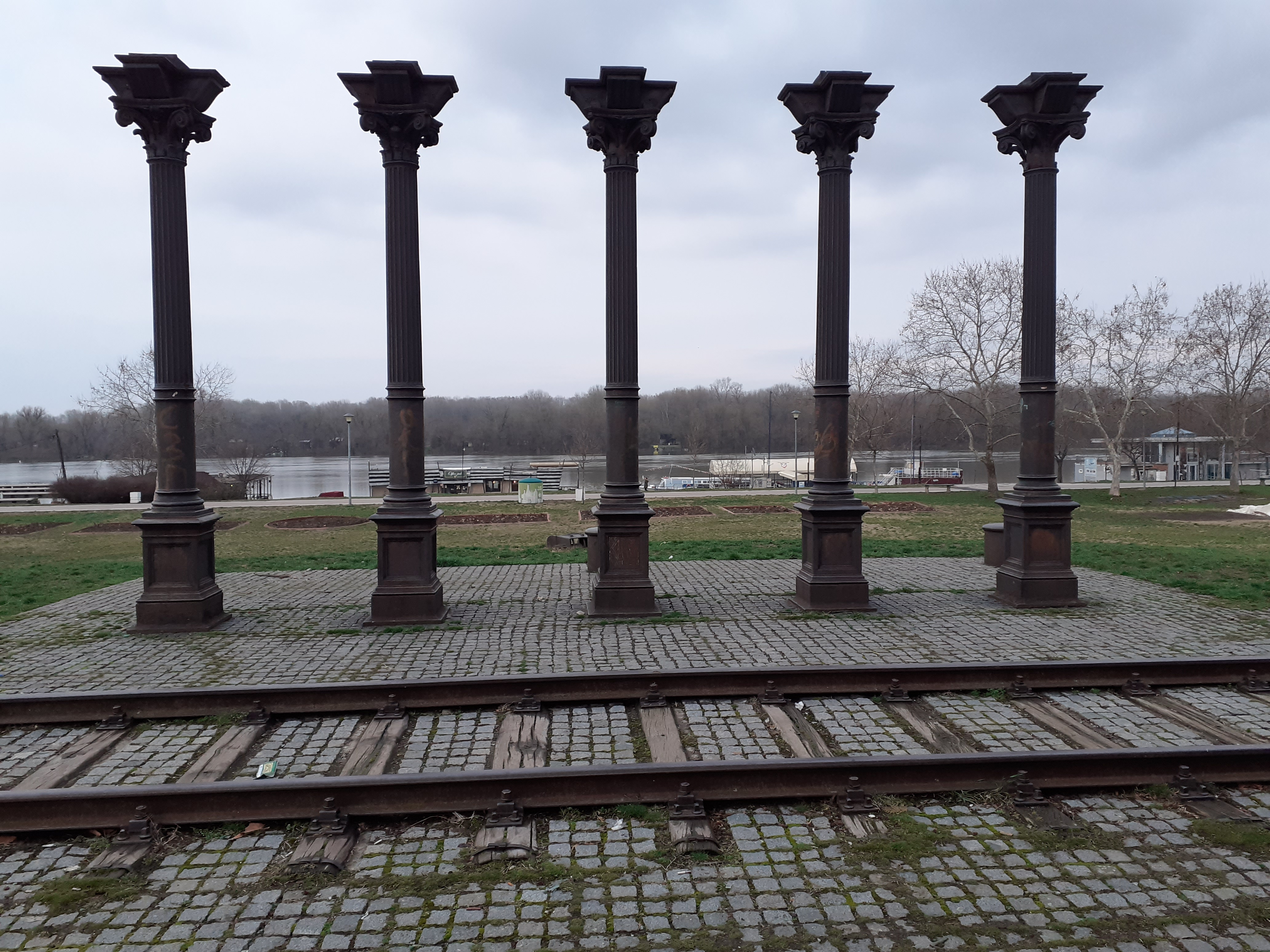 Monument: Zemun railway station, Zemun